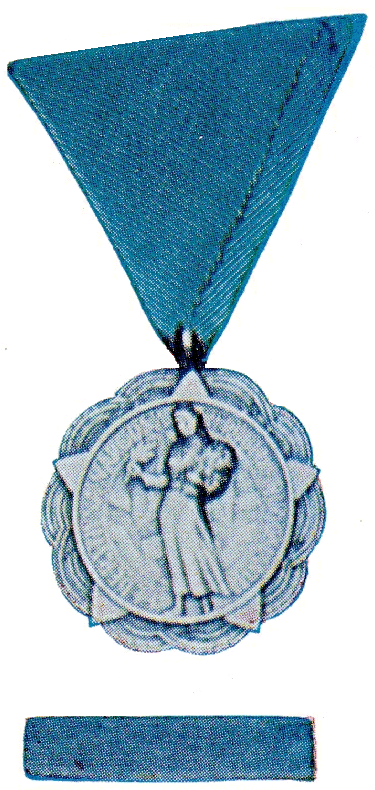 Medal for merits